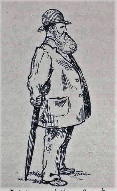 Drawing of Edward Augustus Freeman (1823-1892) at Usk Castle, Monmouthshire, at a meeting of the Cambrian Archaeological Association, 18 August 1876, by Worthington G. Smith